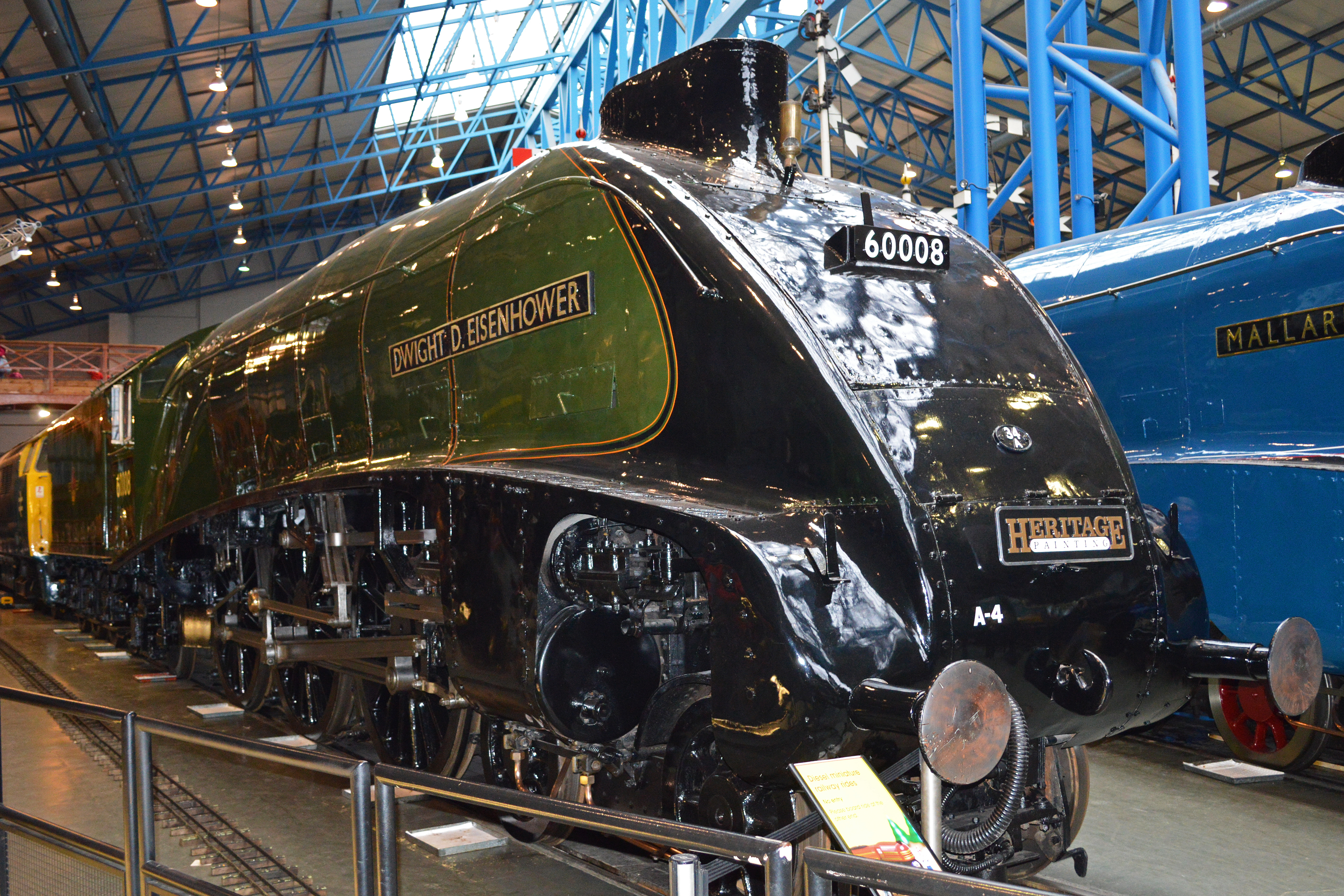 Built in 1937, in LNER service she was numbered '4496' and initially named 'Golden Shuttle'. Renamed 'Dwight D Eisenhower' after WW2 she, became No 8 in 1946 and later '60008' under BR service. Withdrawn in July 1963, she was donated to the National Railroad museum in Green Bay, Wisconsin, USA. She has been brought back to the UK (together with 'Dominion of Canada') so that all 6 remaining A4 pacifics can be seen together on the anniversary of Mallard's record breaking run in July 1938. She is temporarily on display at the National Railway Museum, York. 22-02-2013